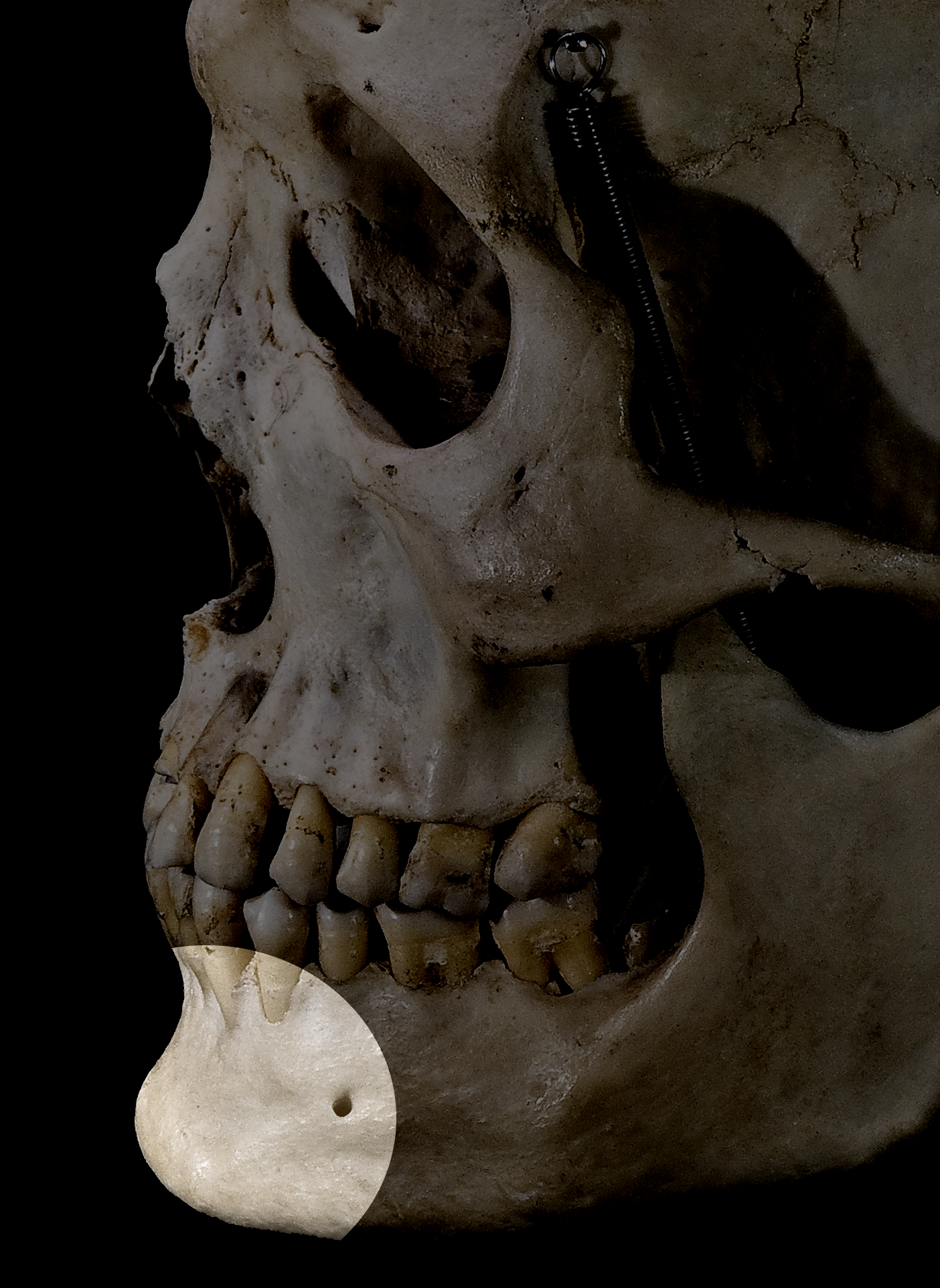 Human Skull — close-up showing chin